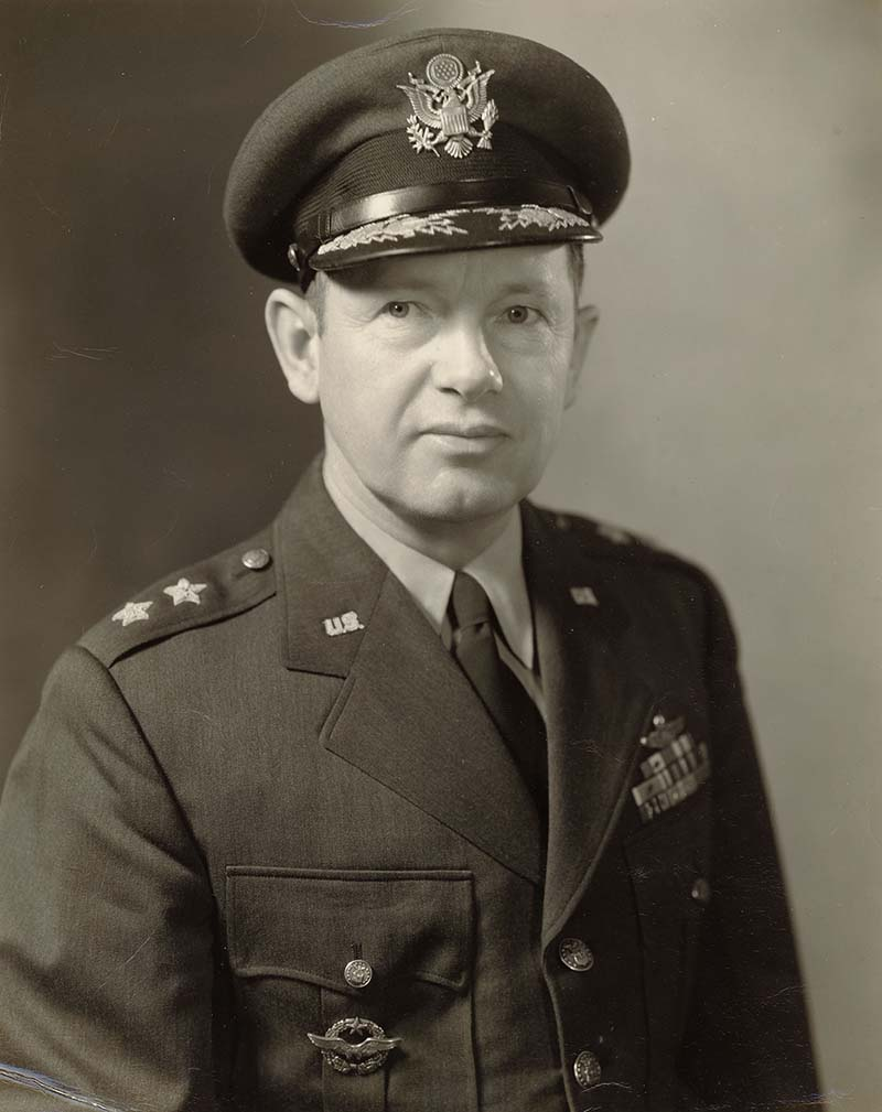 Laurence C. Craigie pictured as a MGEN